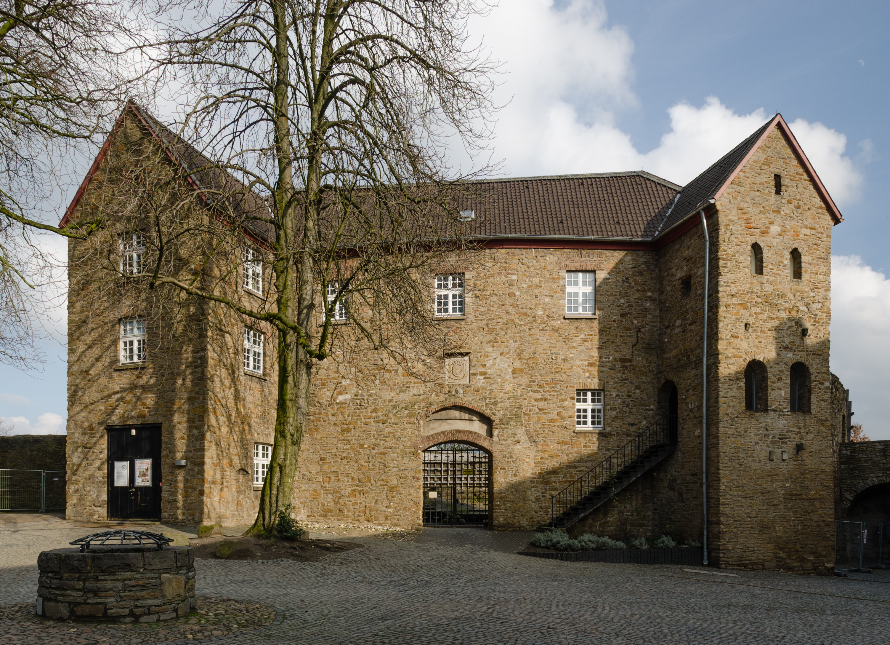 Schloss Broich / Broich Castle in Mülheim an der Ruhr, Hochschloss with historical museum.